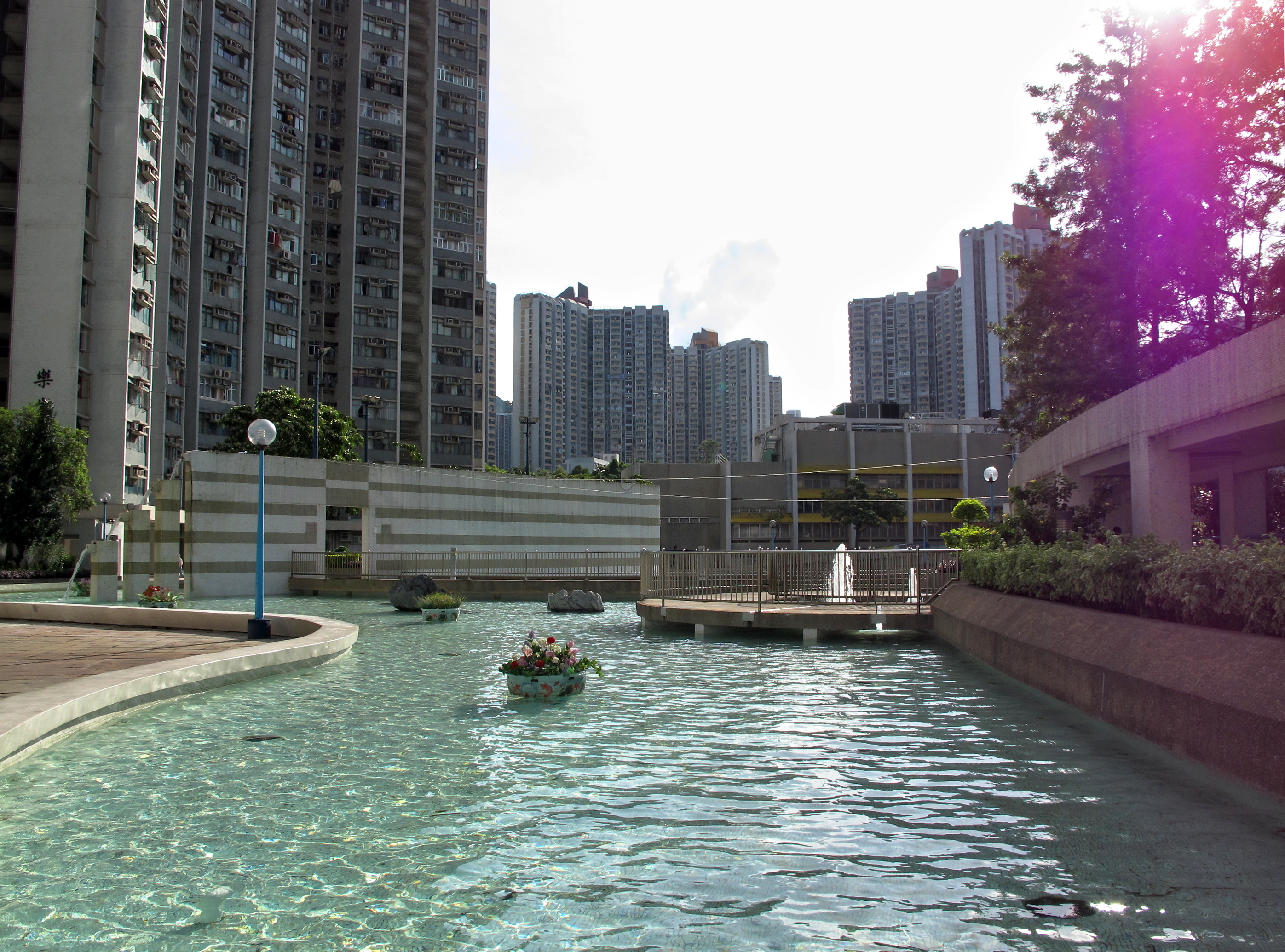 Kin Sang Estate Fountain